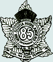 Head dress cap badge of World War I Canadian military unit the 85th Battalion Nova Scotia Highlanders